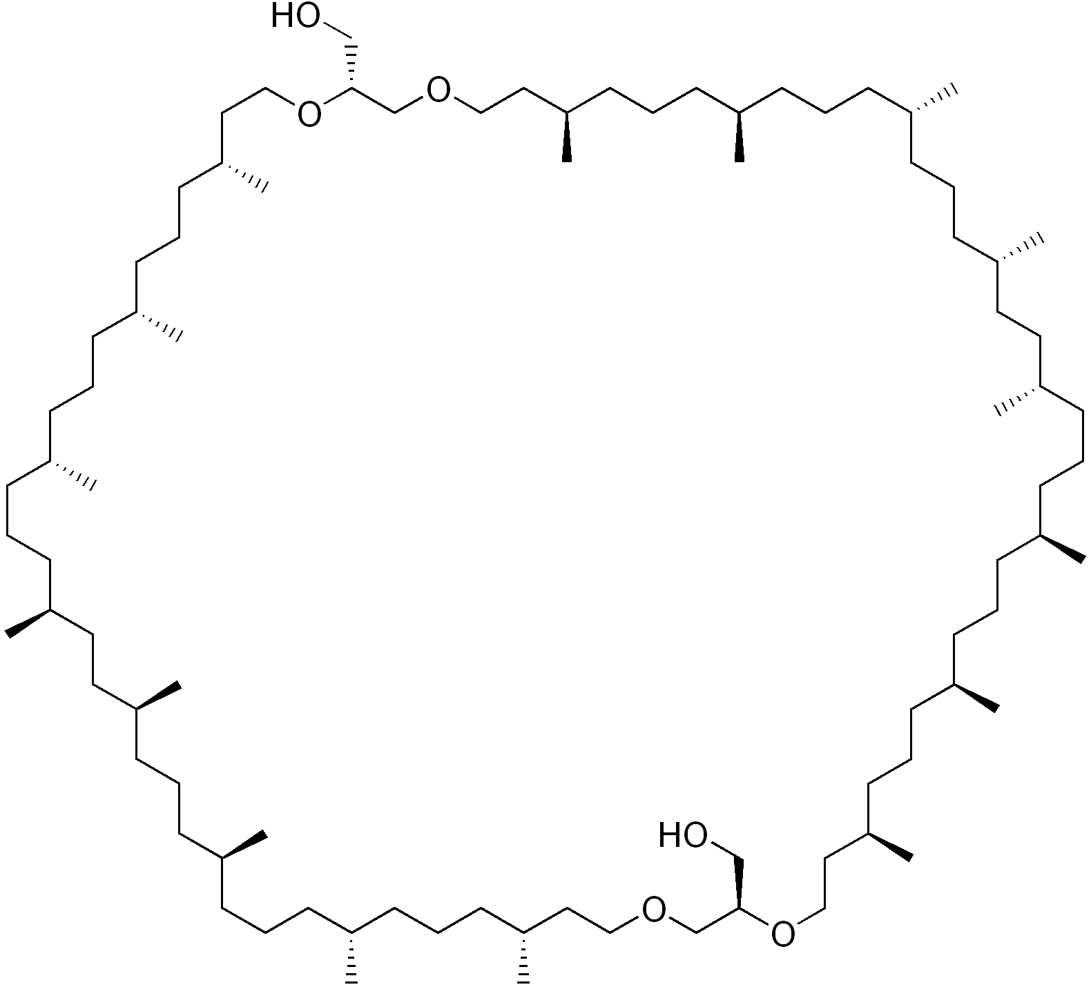 chemical structure of caldarchaeol